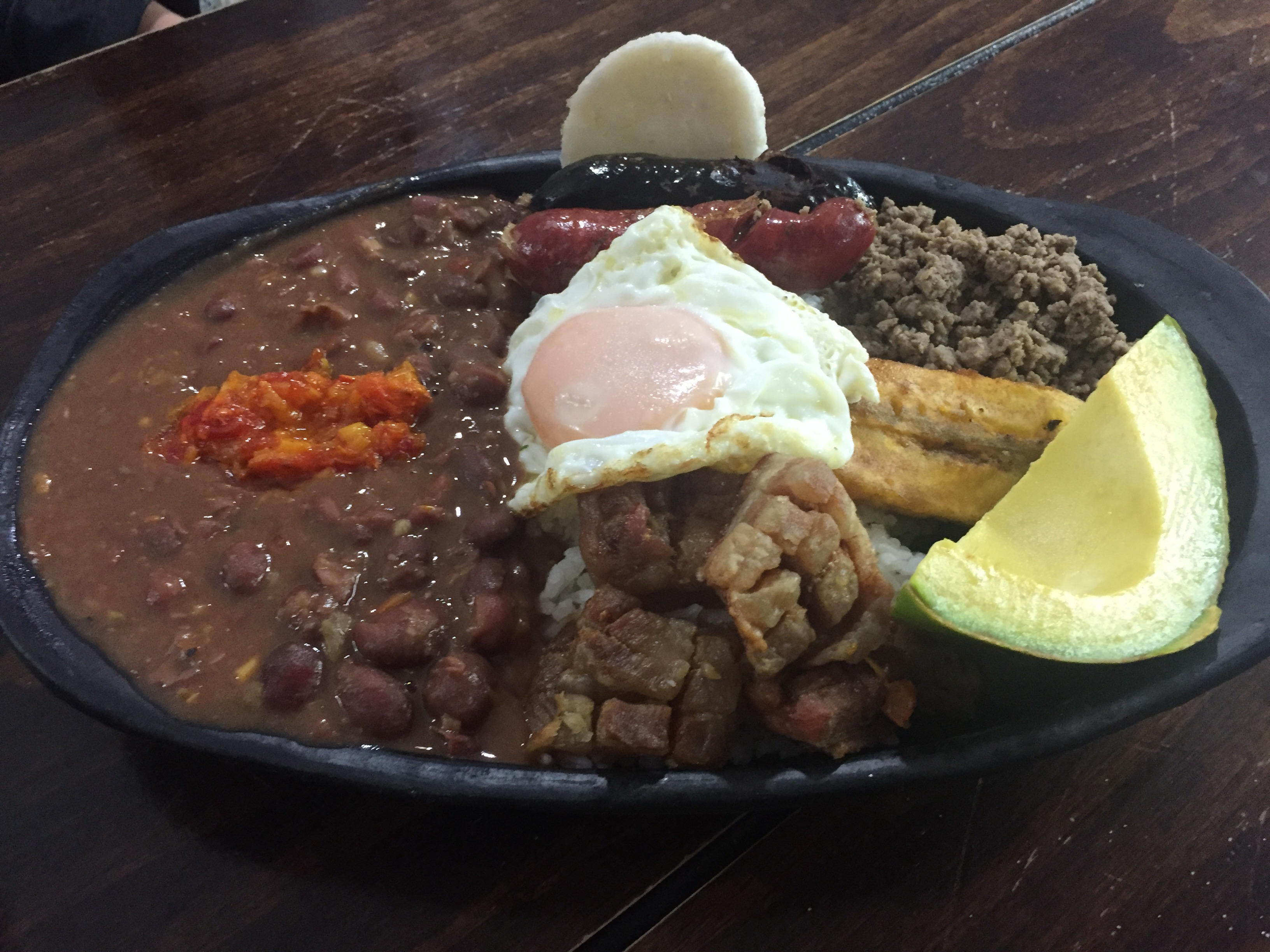 bandeja paisa